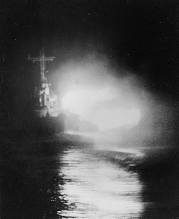 The U.S. Navy light cruiser USS Honolulu (CL-48) firing during the night bombardment of Japanese positions at Vila, on Kolombangara, and Munda, on New Georgia, 13 May 1943.